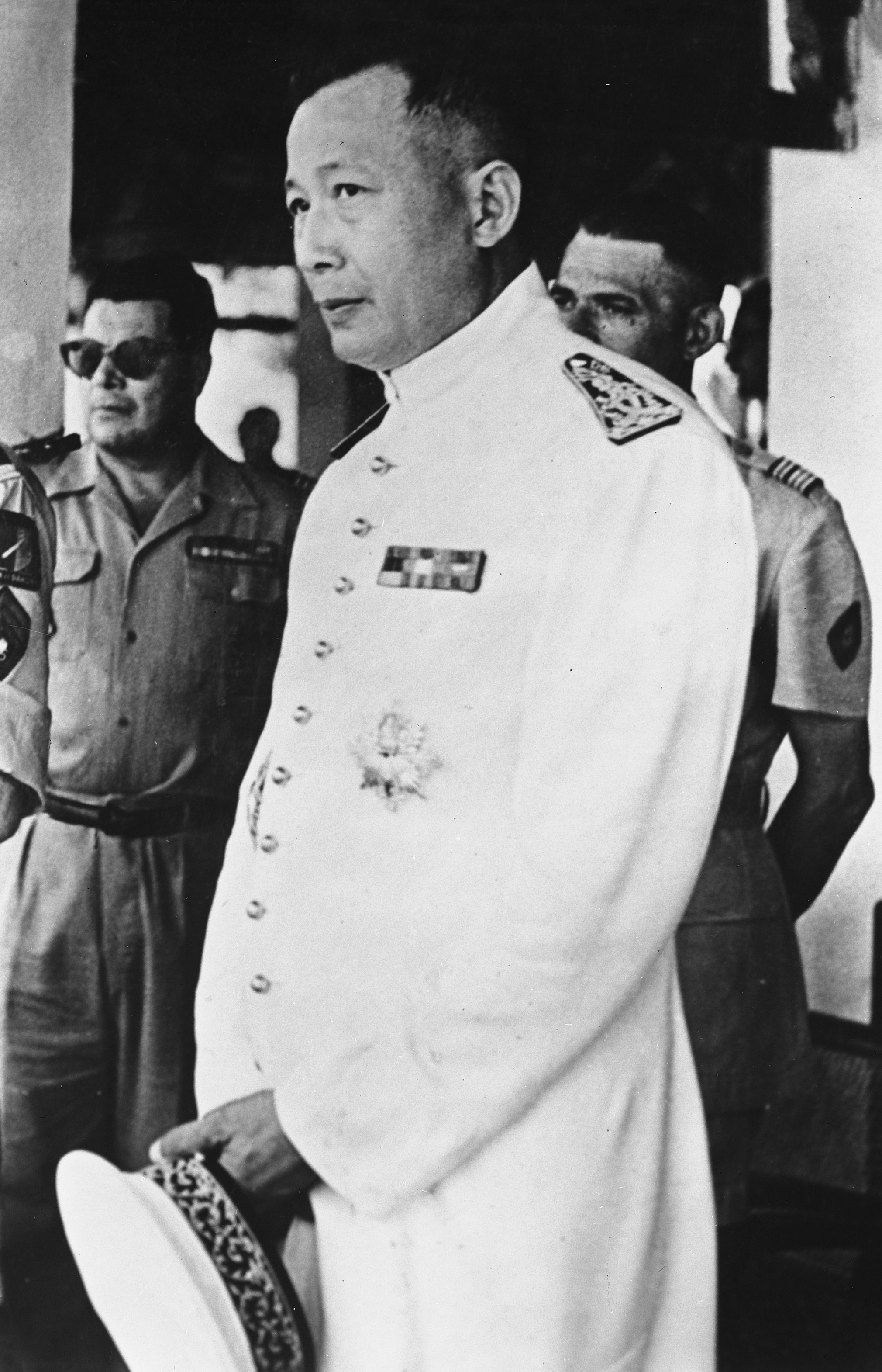 Vong Savang (THIS IS NOT VONG SAVANG, but his father Sisavang Vatthana)